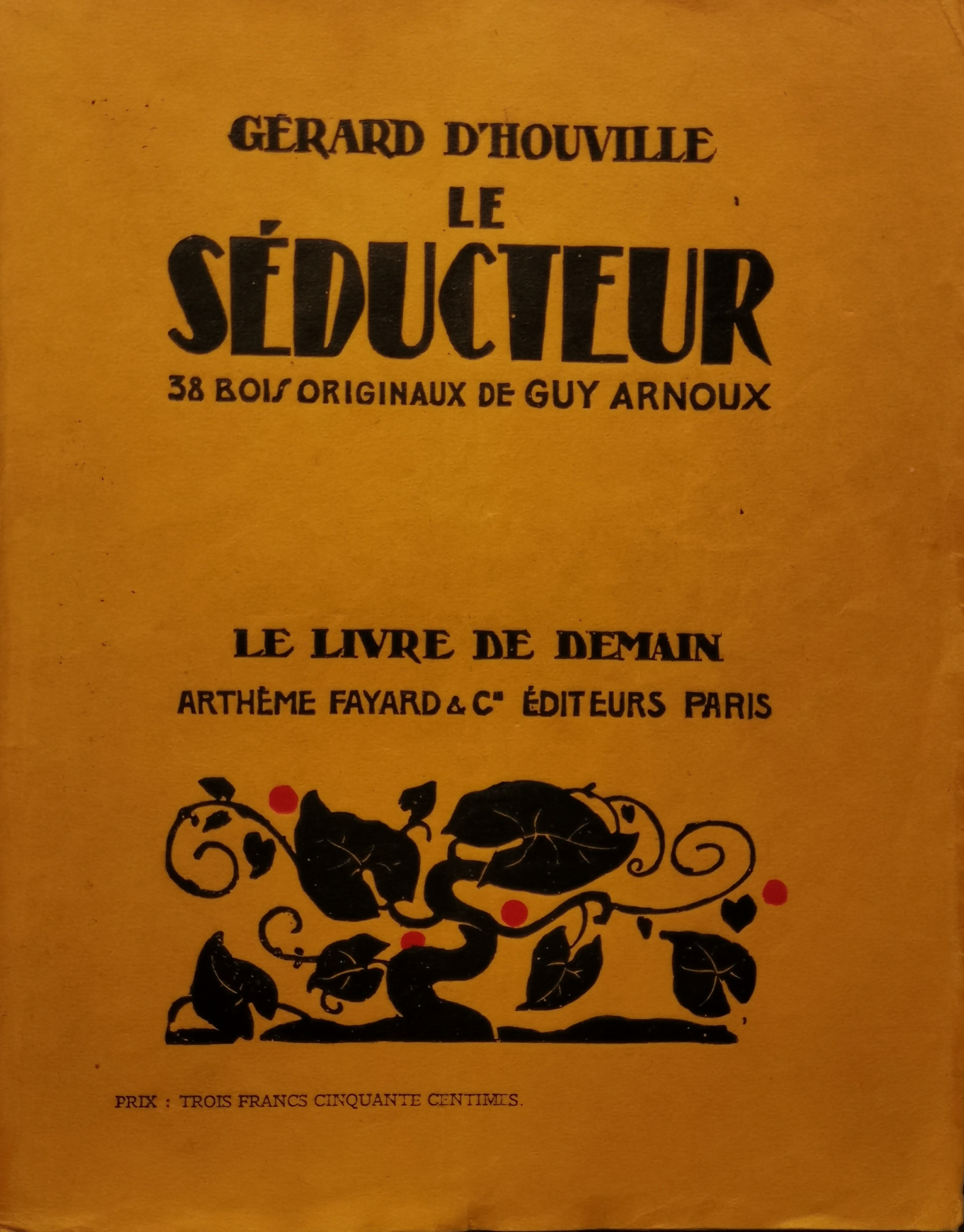 Cover of Le Séducteur by Gérard D'Houville, book printed in Paris by Libraire Arthème Fayard, serie Le Livre de demain # 04.